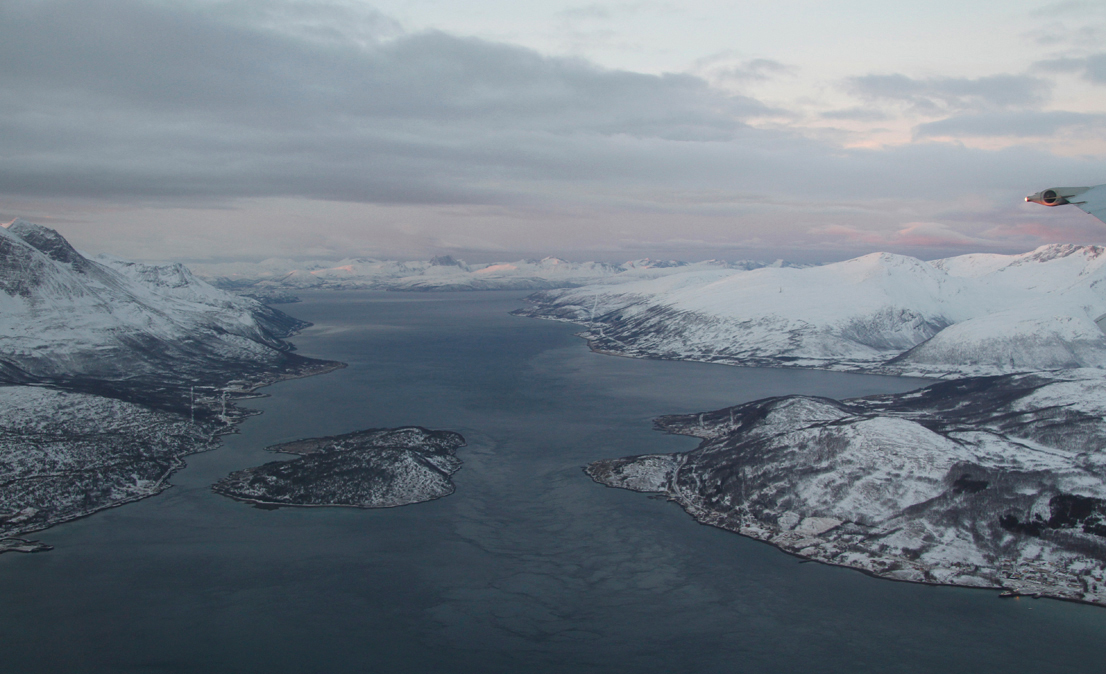 Rystraumen sound with Ryøya island (middle) and Kvaløya island (right) in Tromsø, Norway